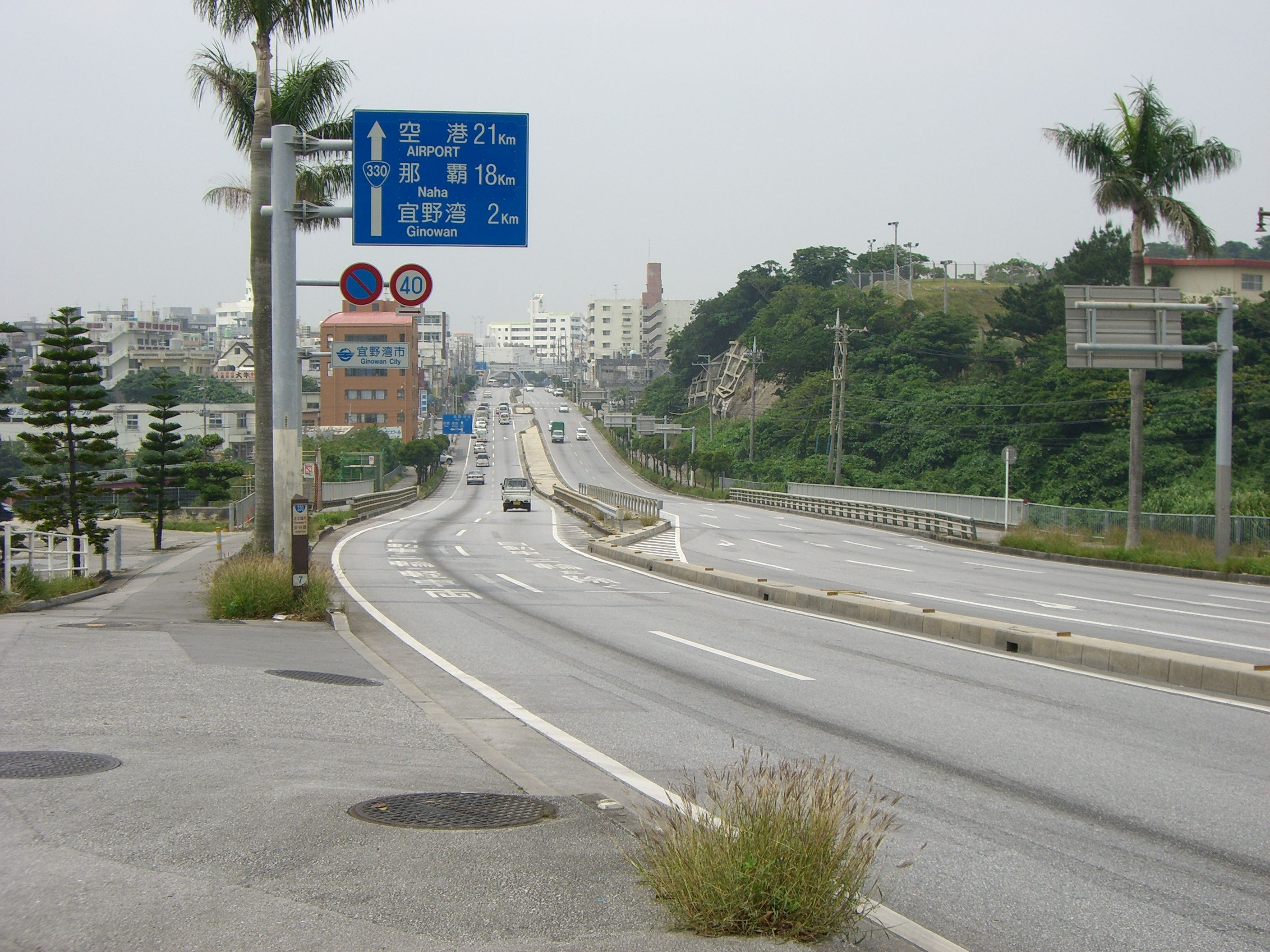 Route 330 in Kitanakagusuku, Japan